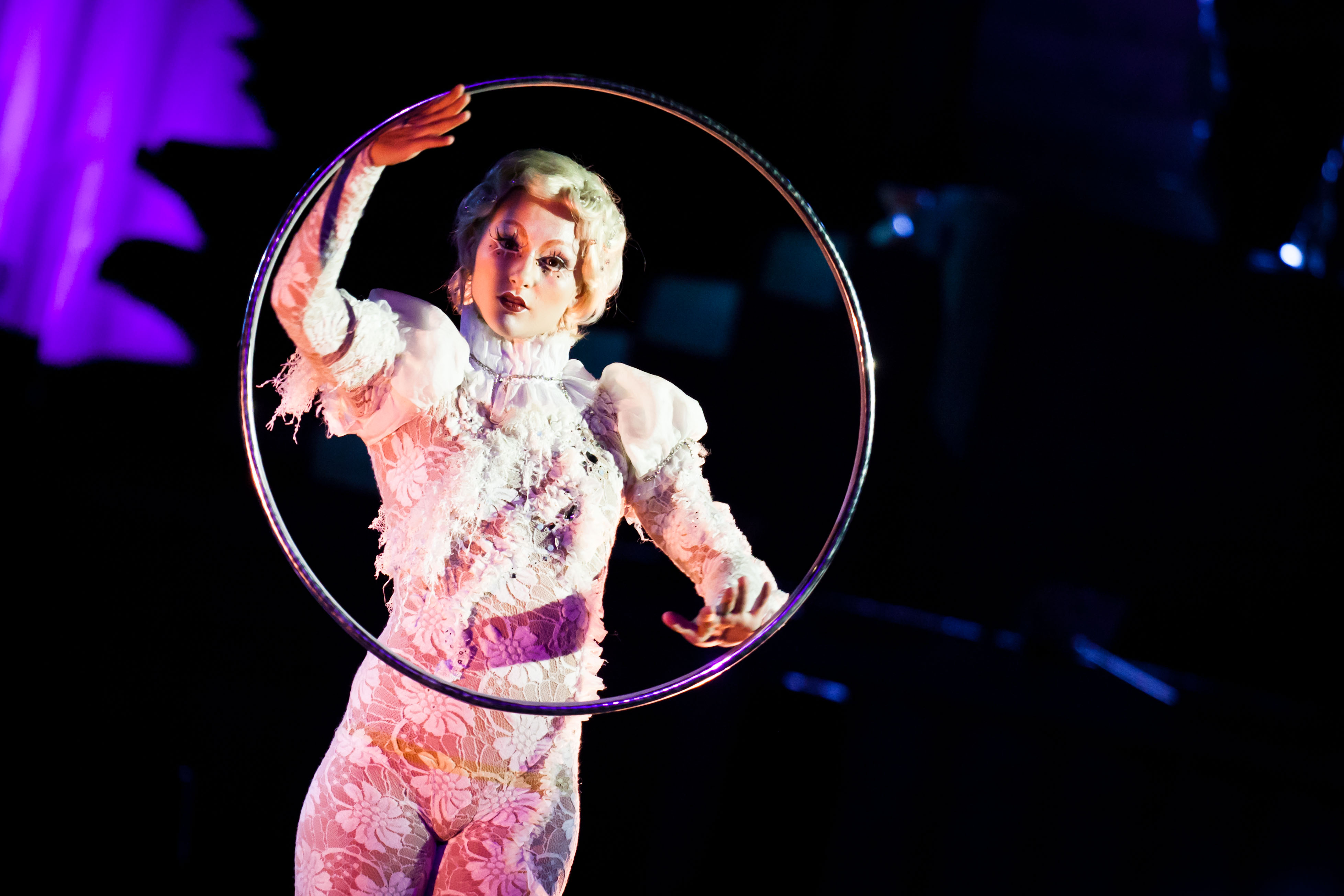 A free outdoor performance by Cirque du Soleil, under the Dufferin-Montmorency highway in Quebec City Everything was in French and I totally did not understand a single word. The performances were great though! Quebec City, Quebec